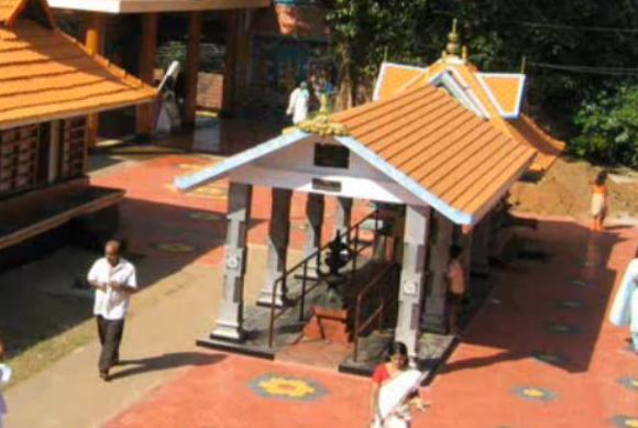 Kanjiramattom Siva Temple Upadeva at (Thodupuzha)